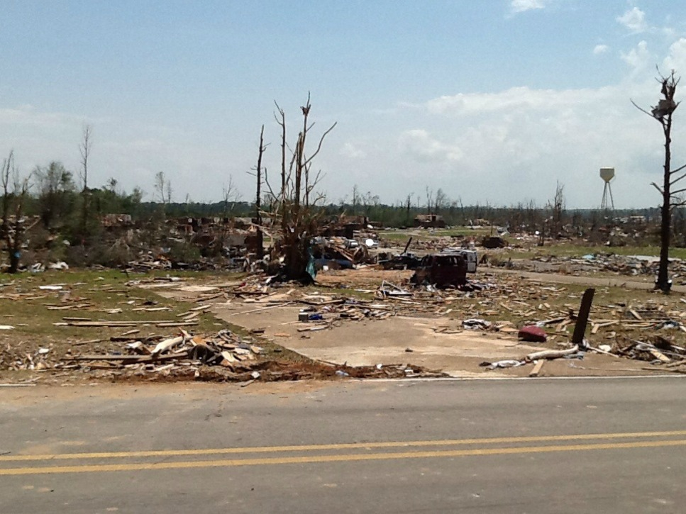 EF4 tornado damage in the town of Louisville, MS.